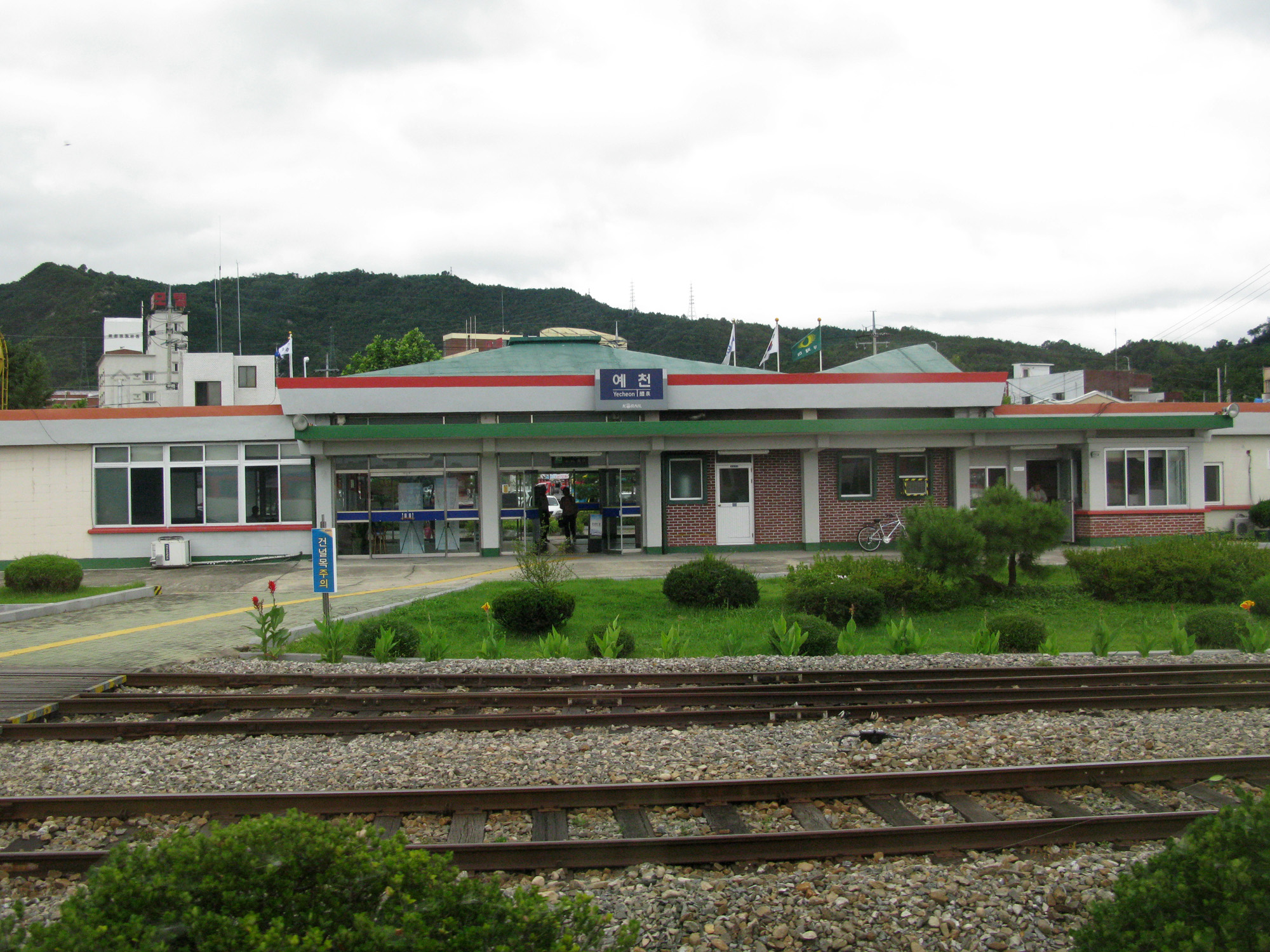 Gyeongbuk Line Yecheon Station